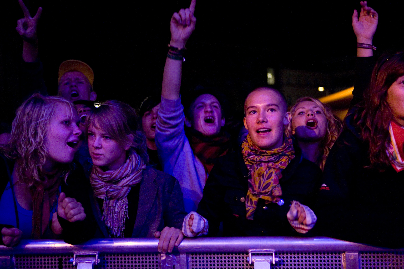 Audience at "Verdensscenen" during Aarhus Festuge Photo: Søren Gammelmark